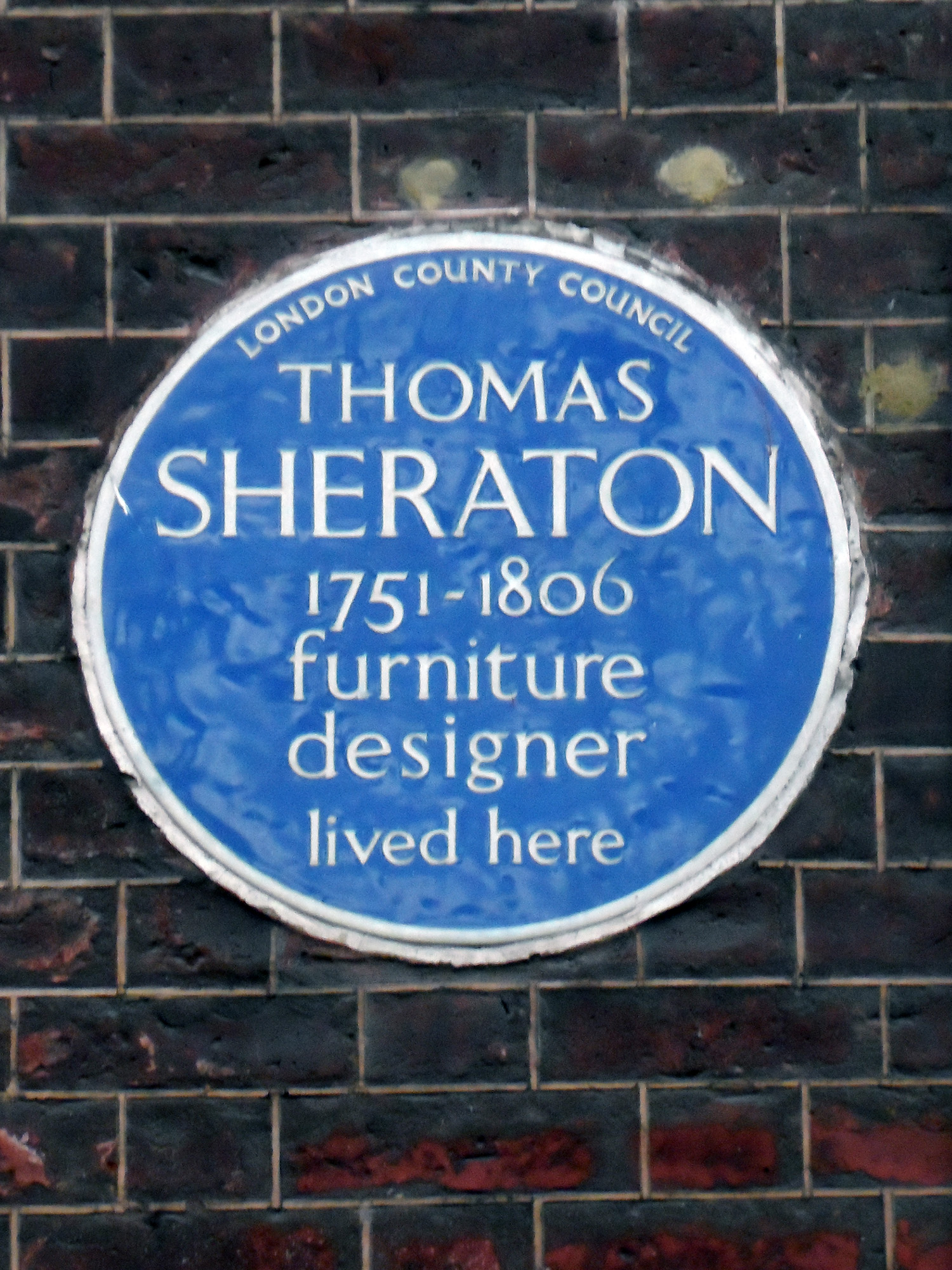 Blue plaque erected in 1954 by London County Council at 163 Wardour Street, Soho, London W1F 8WL, City of Westminster